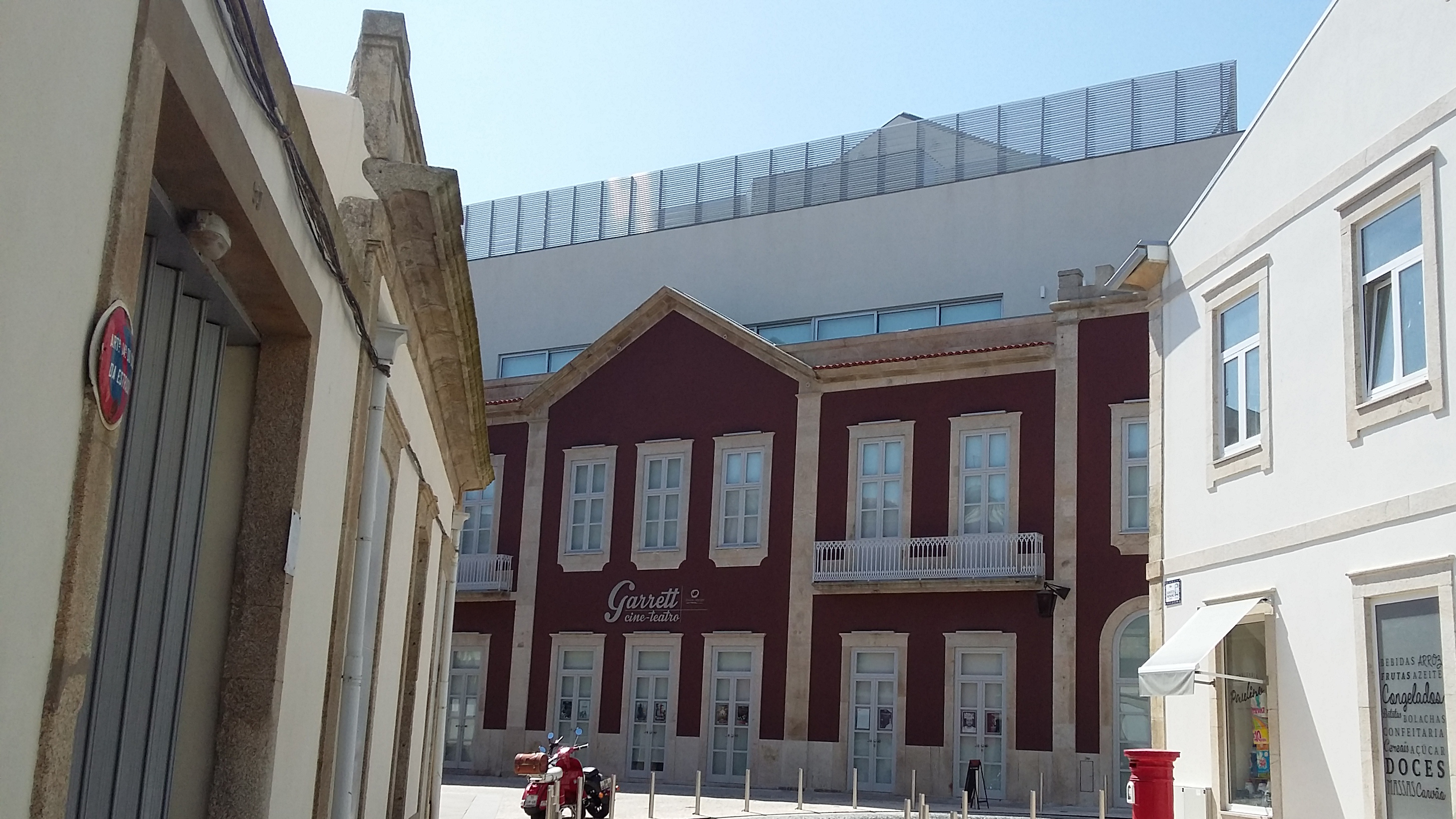 partial view of Garrett Theatre, Póvoa de Varzim, Portugal